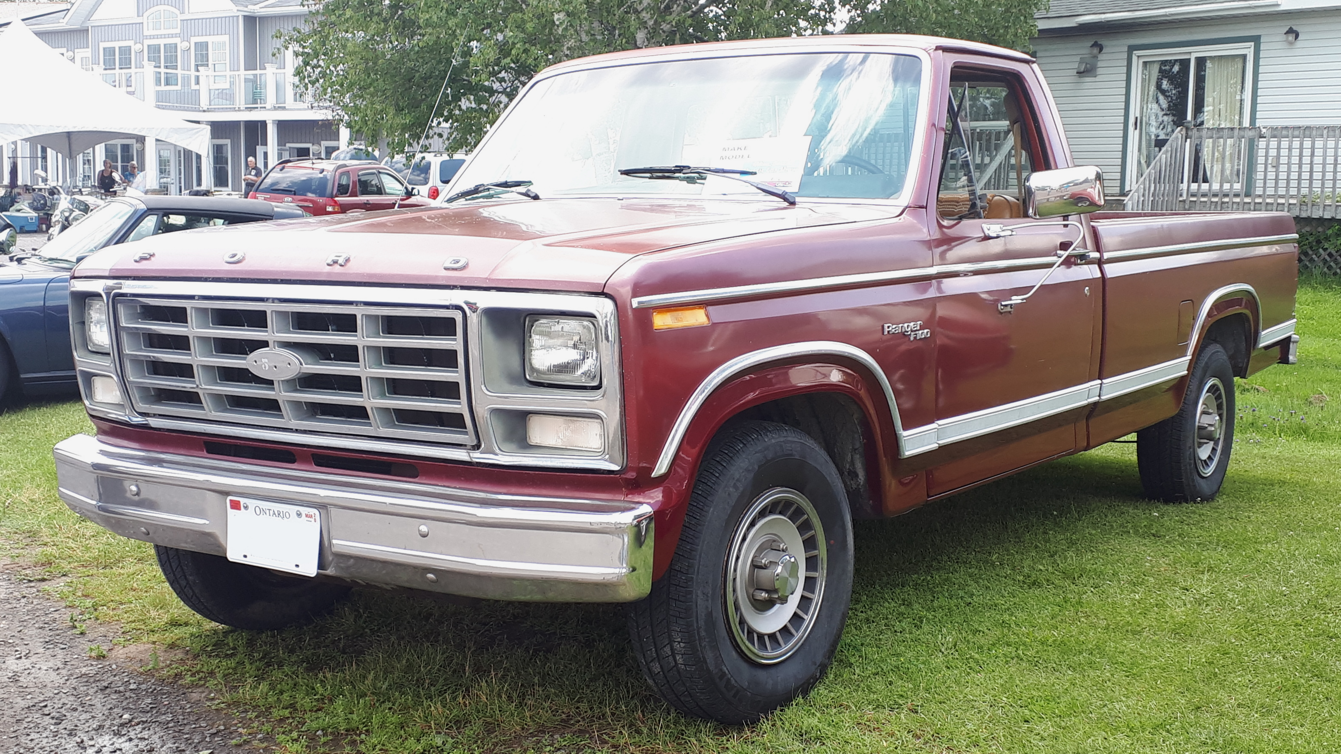 1980 Ford Ranger F100 photographed in Hilton Beach, Ontario, Canada